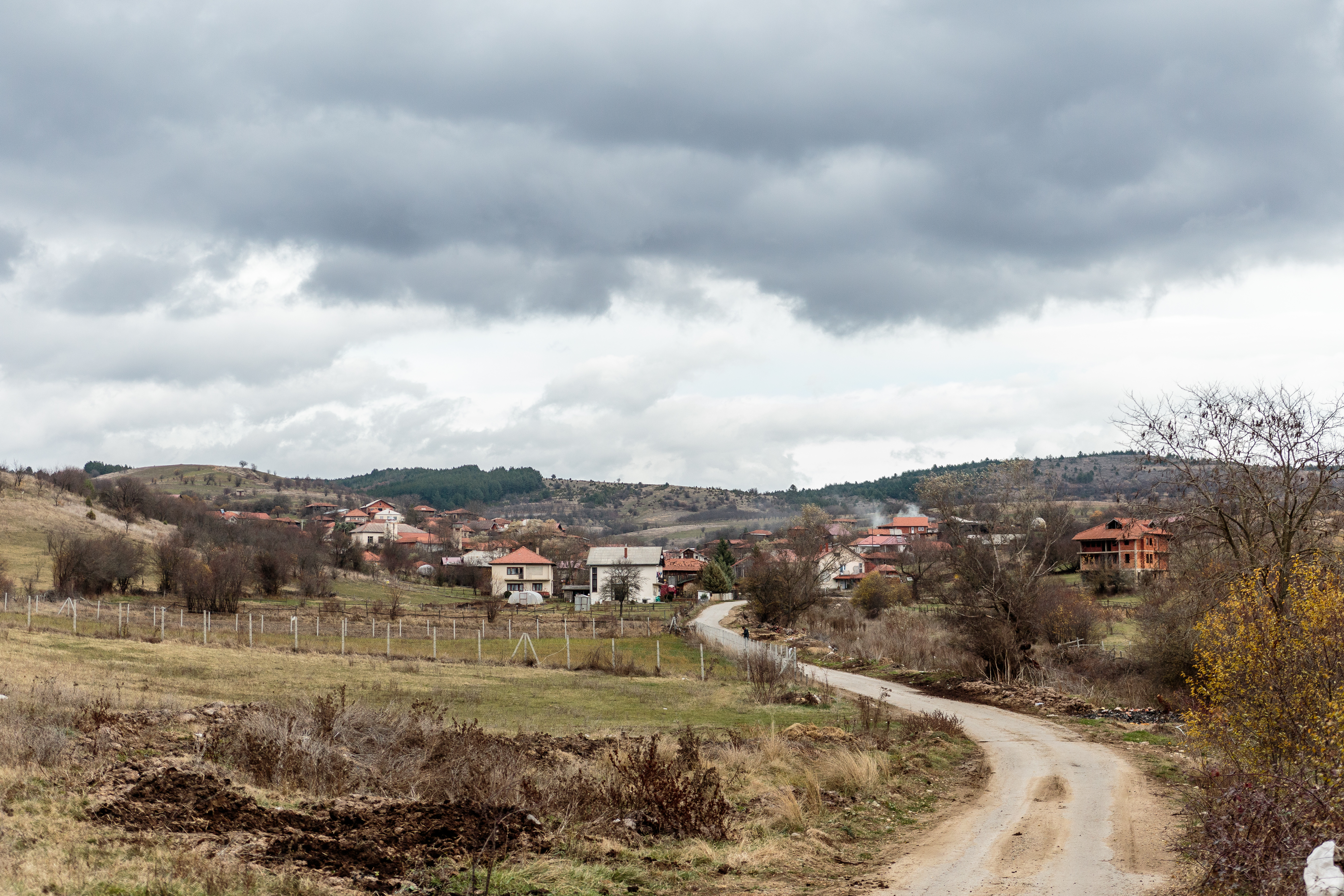 Panoramic view of the village of Umlena, Maleševija, Macedonia